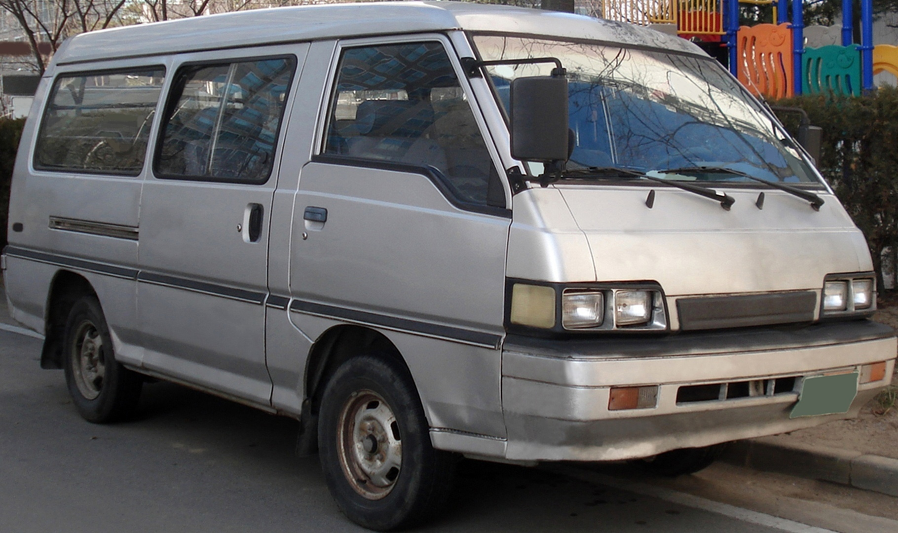 Hyundai Grace